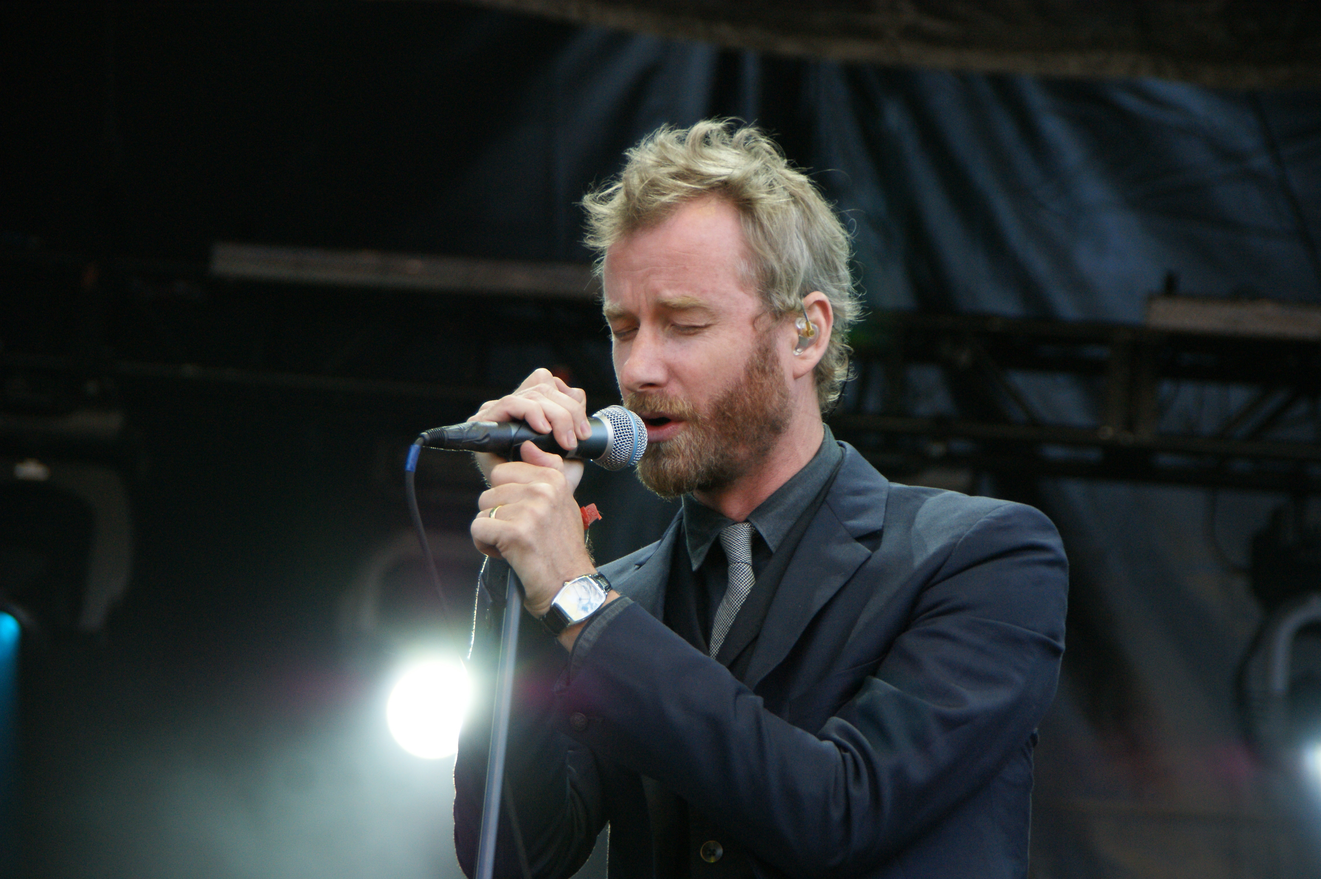 Matt Berninger is primarily known for his role as frontman for indie rock group The National; this picture shows him singing at the 2010 Sasquatch! Music Festival.